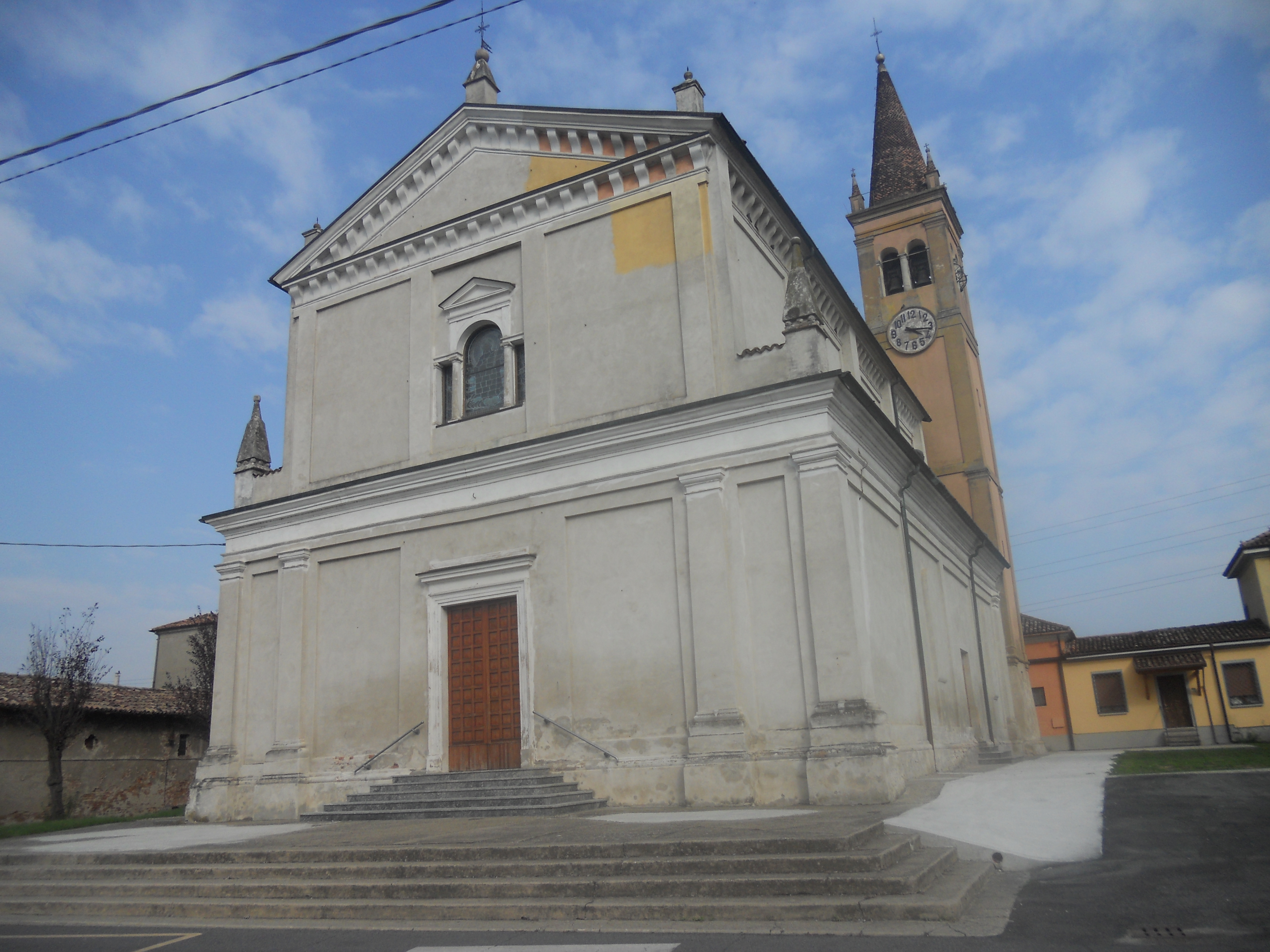 Church in Fiesco, Italy